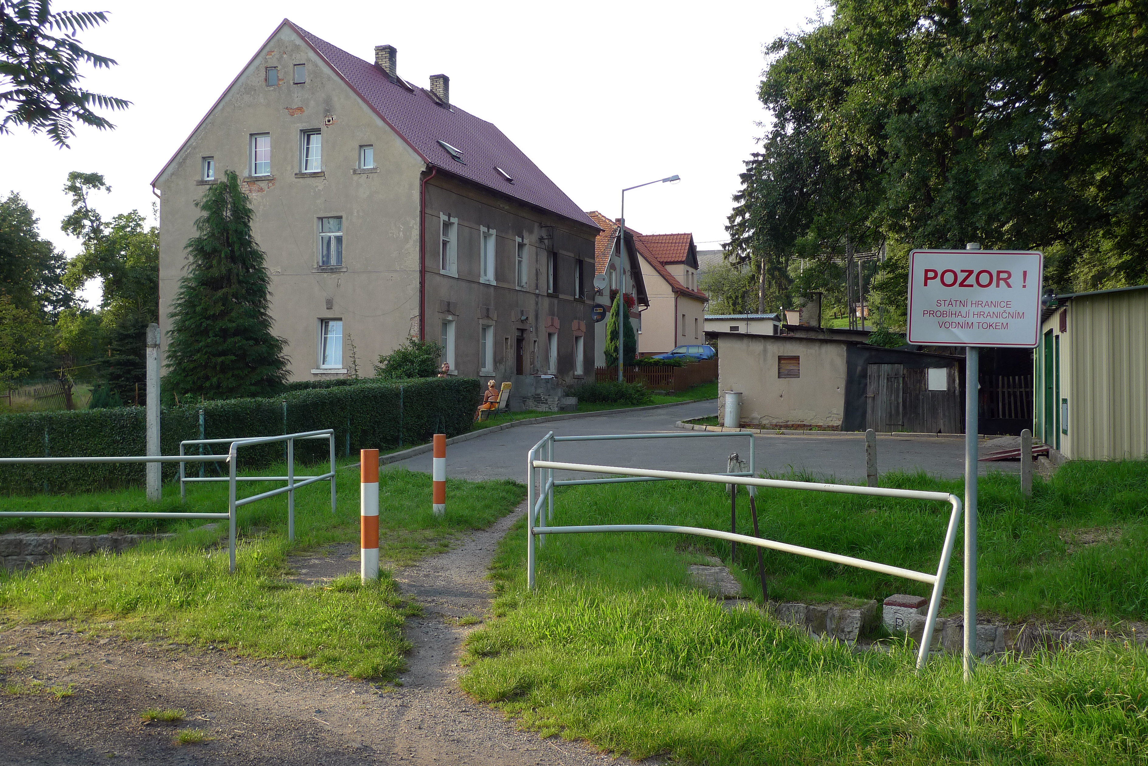 Oldřichov na Hranicích in the Czech Republic